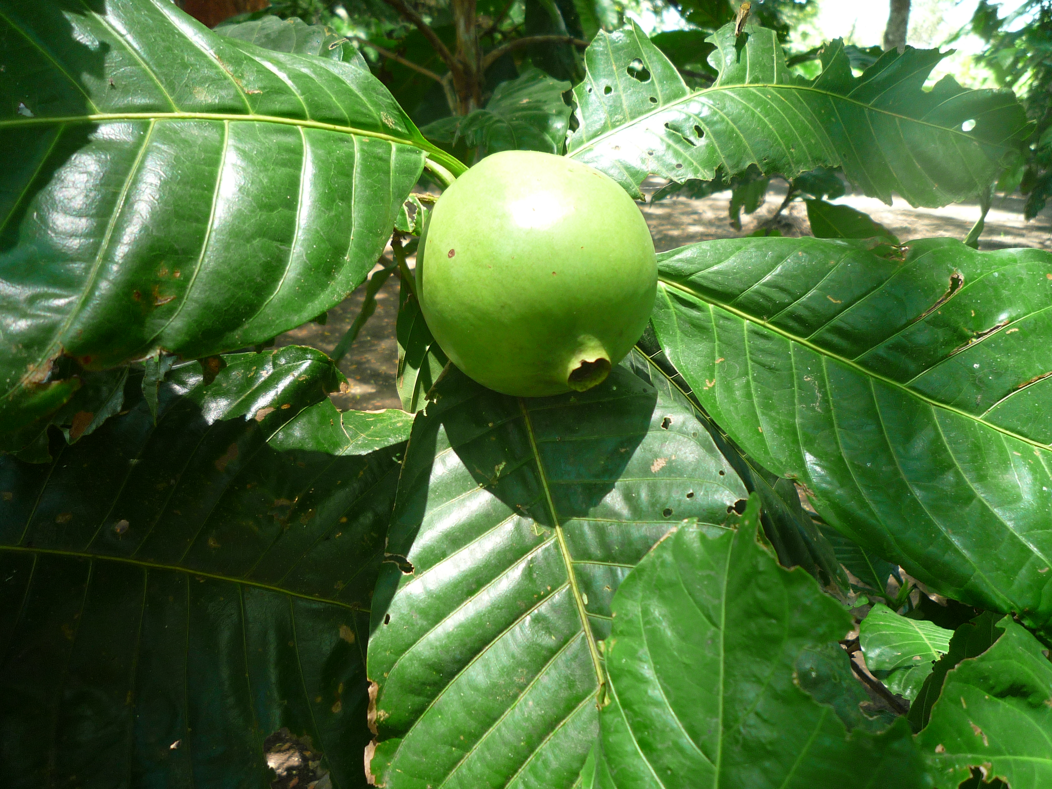 Borojoa patinoi, commonly known as Borojó, is a mid sized (3 to 5m) Tropical forest tree that belongs to the Rubiaceae family.